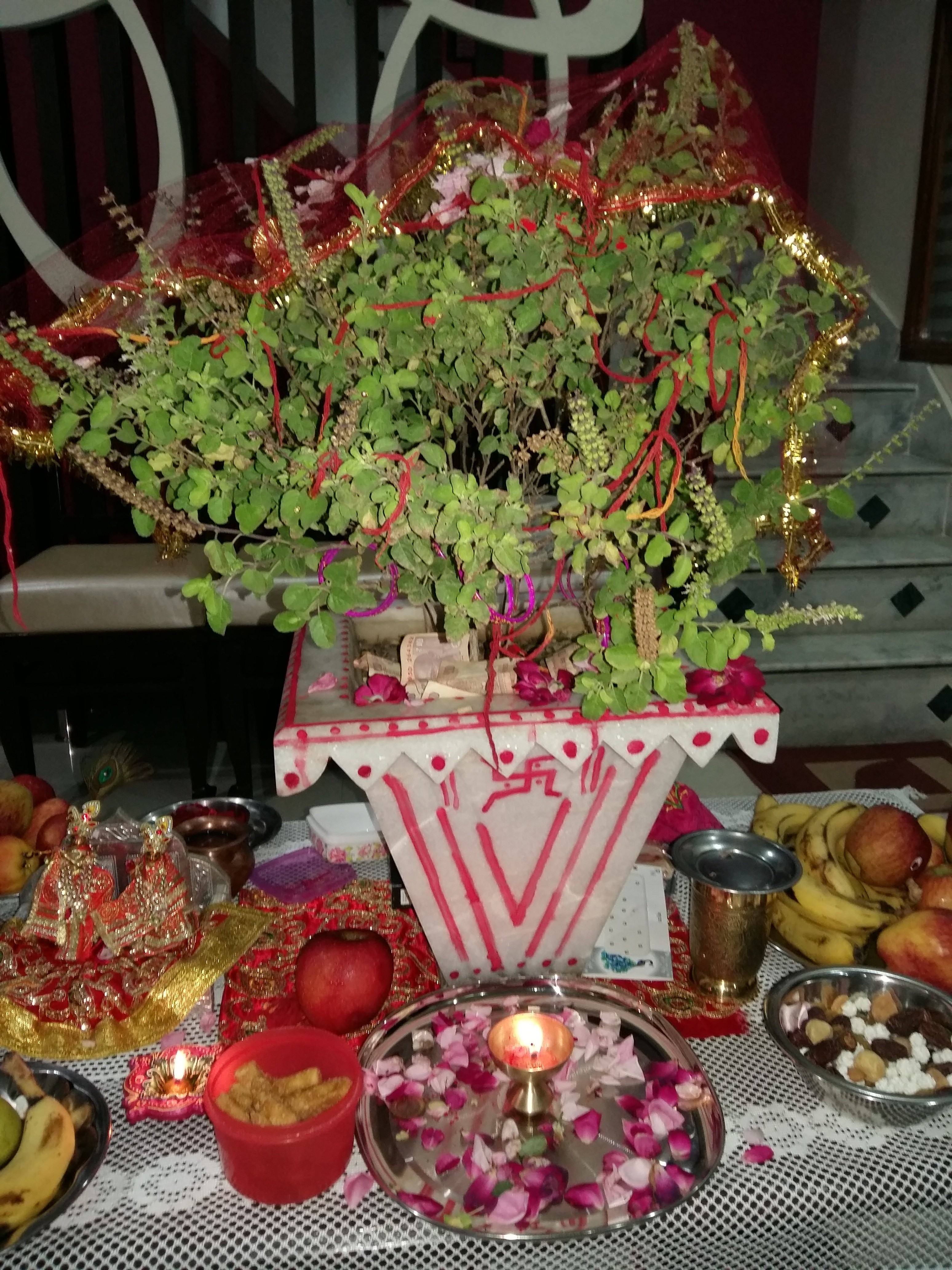 Tulsi Vivah is the ceremonial marriage of the Tulsi (holy basil) plant to the Hindu god "Shaligram" or Vishnu or to his avatar, Sri Krishna. This photo has been taken in the country: India